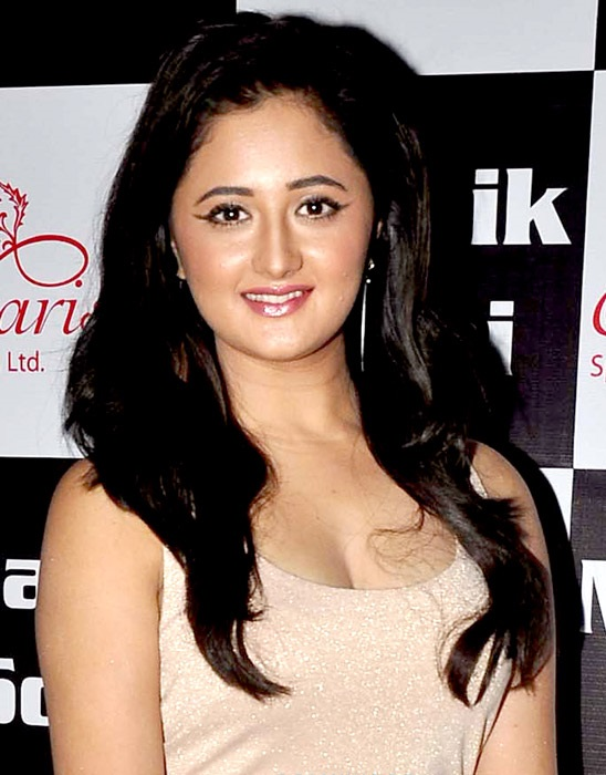 Rashmi at Kino Cottage